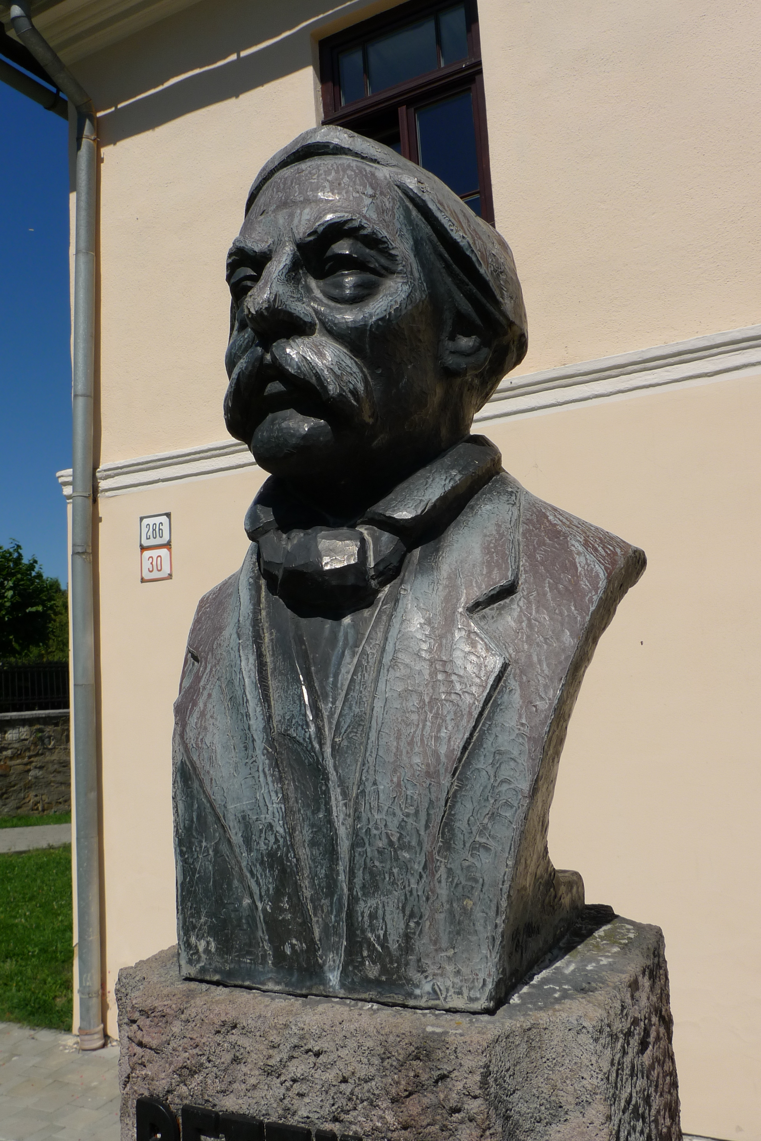 Statue od Jozef Maxmilián Petzval in Spišská Belá, Slovakia